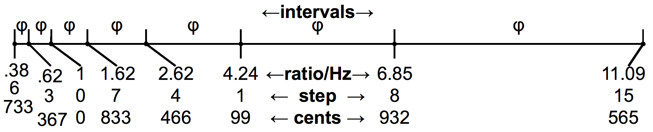 Stack of golden ratio intervals in Hz (linear).